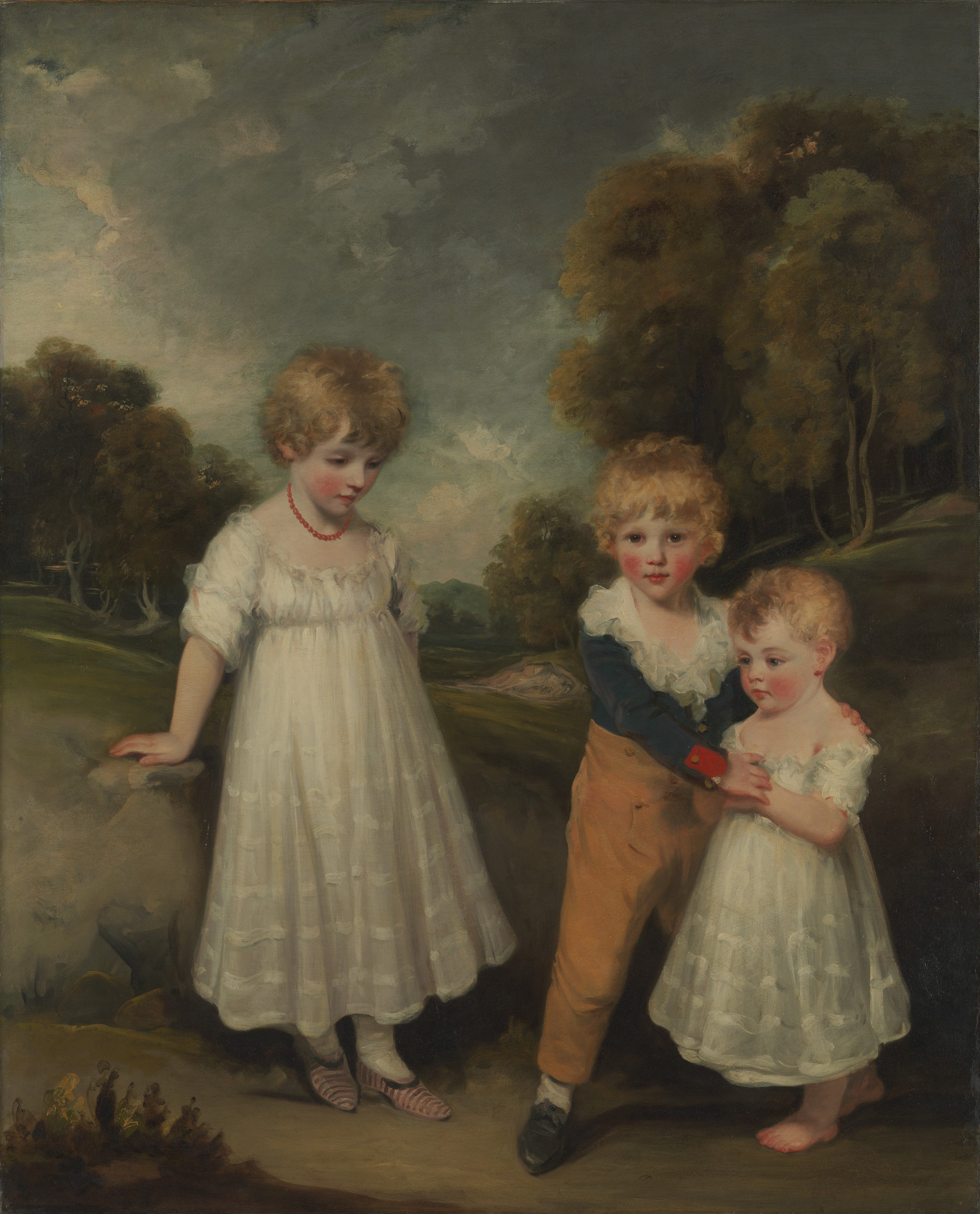 Portrait of Lady Mary Sackville (1792–1864), later Countess Amherst and of Plymouth; George Sackville, Earl of Middlesex (1793–1815), later Duke of Dorset and Lady Elizabeth Sackville (1795–1870), later Countess De La Warr and Baroness Buckhurst. The picture was shown at the Royal Academy in 1797 under the title "Portraits of a nobleman's children."